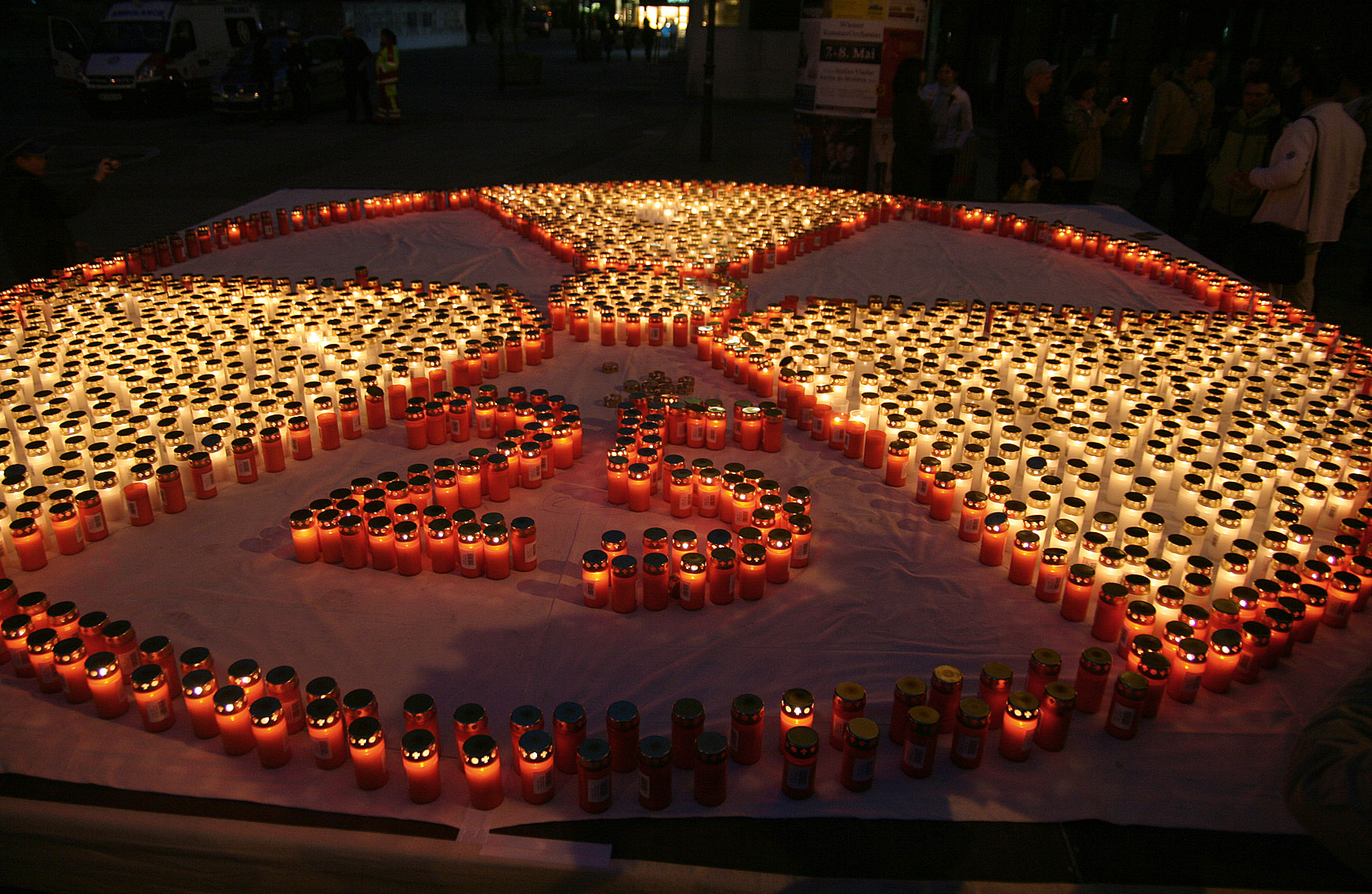 2000 candles in memory of the Chernobyl disaster in 1986 at a commemoration 25 years after the nuclear accident as well as for the Fukushima I nuclear accidents of 2011 (Stephansplatz, Vienna).